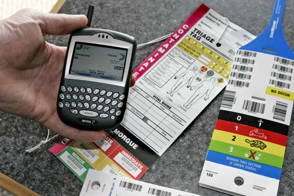 Image of instruments for medical triage